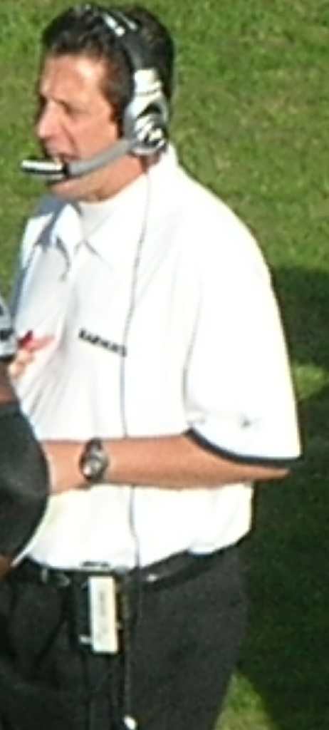 Oakland Raiders offensive coordinator Greg Knapp in 2008